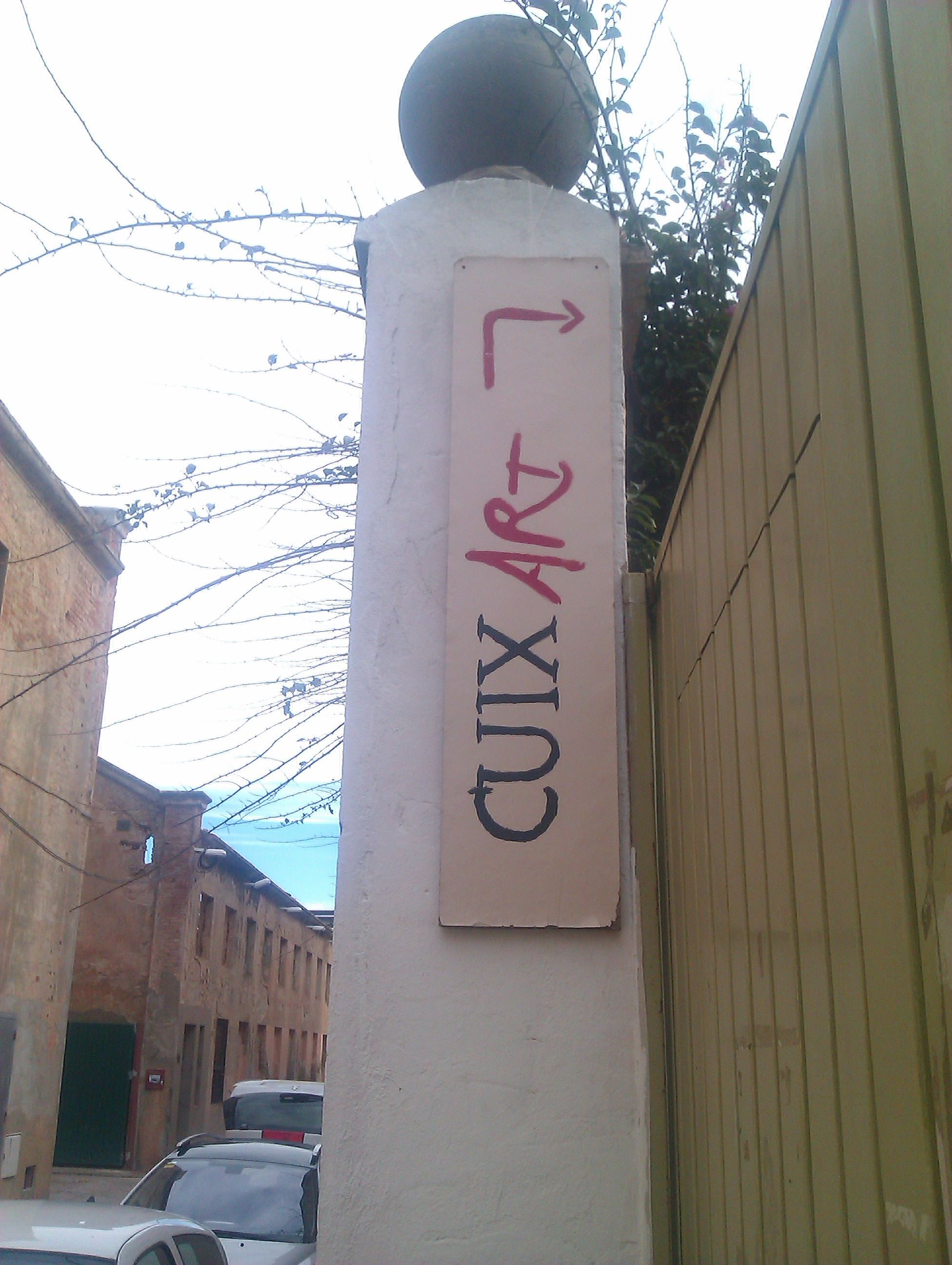 Fundació Cuixart logo